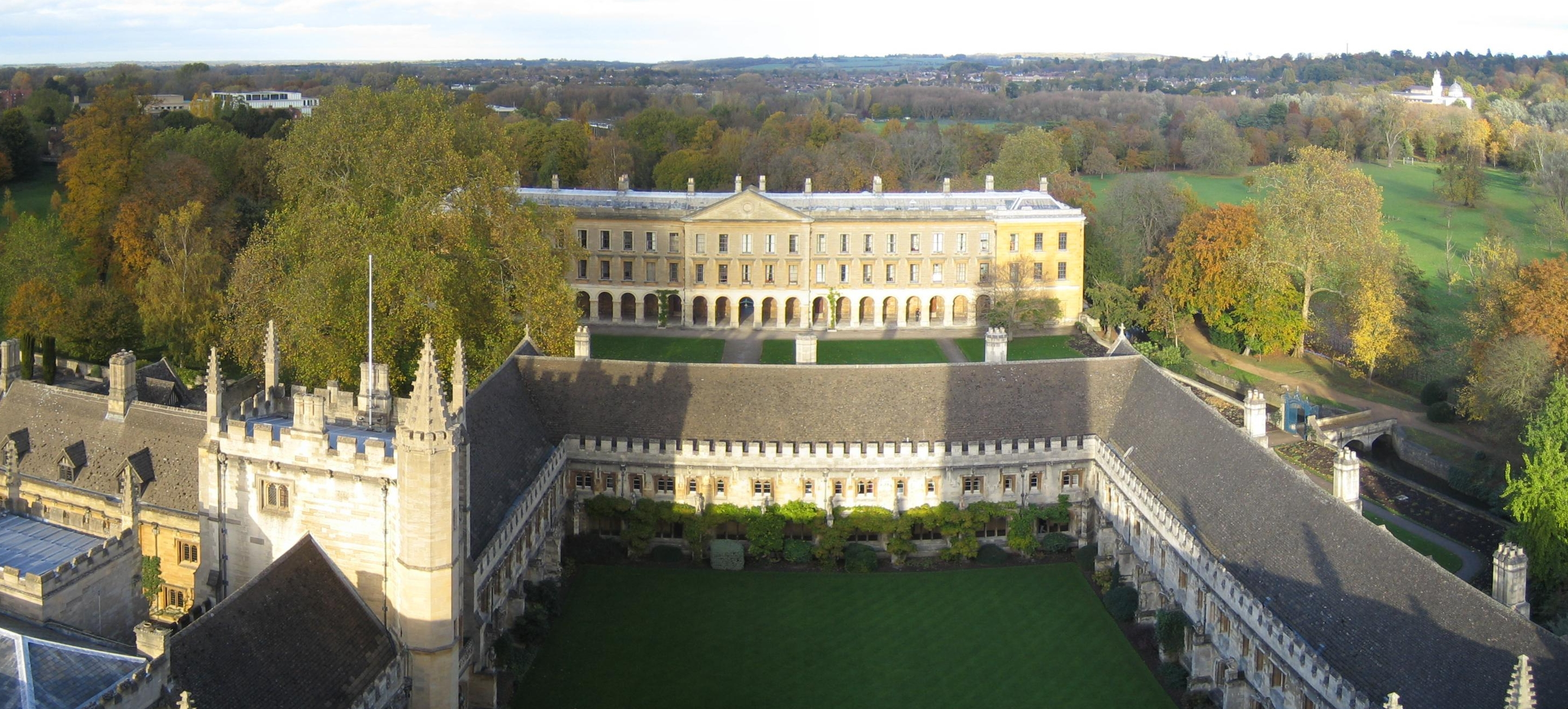 A panorama of Magdalen College, Oxford, stitched together from photos taken from atop Magdalen College tower, This panoramic image was created with Autostitch. Stitched images may differ from reality. .